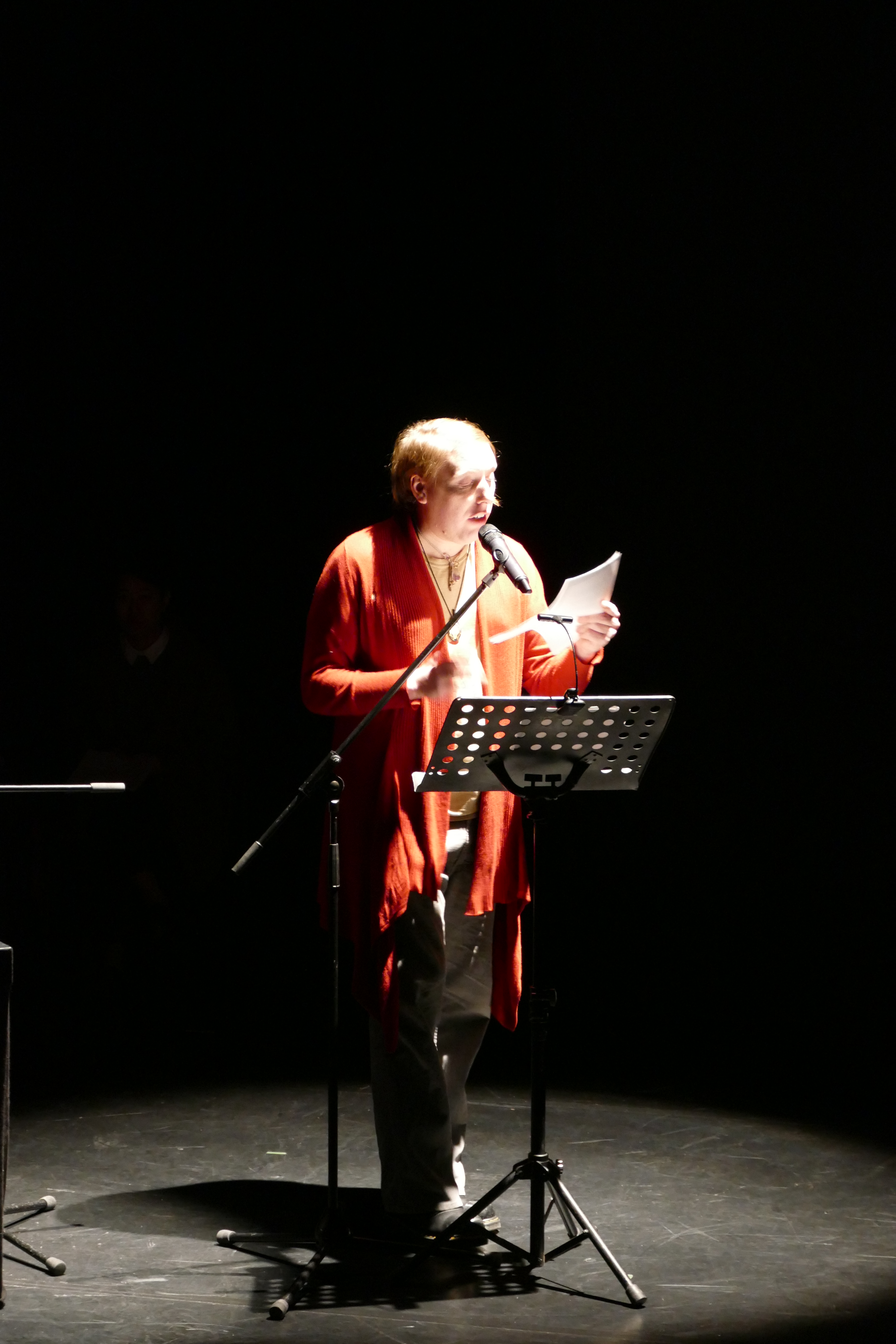 Verity Spott performing at the closing event of Fokus Lyrik 2019: "Eine Frage der Zeit – Lyrik zwischen Dystopie und Utopie"